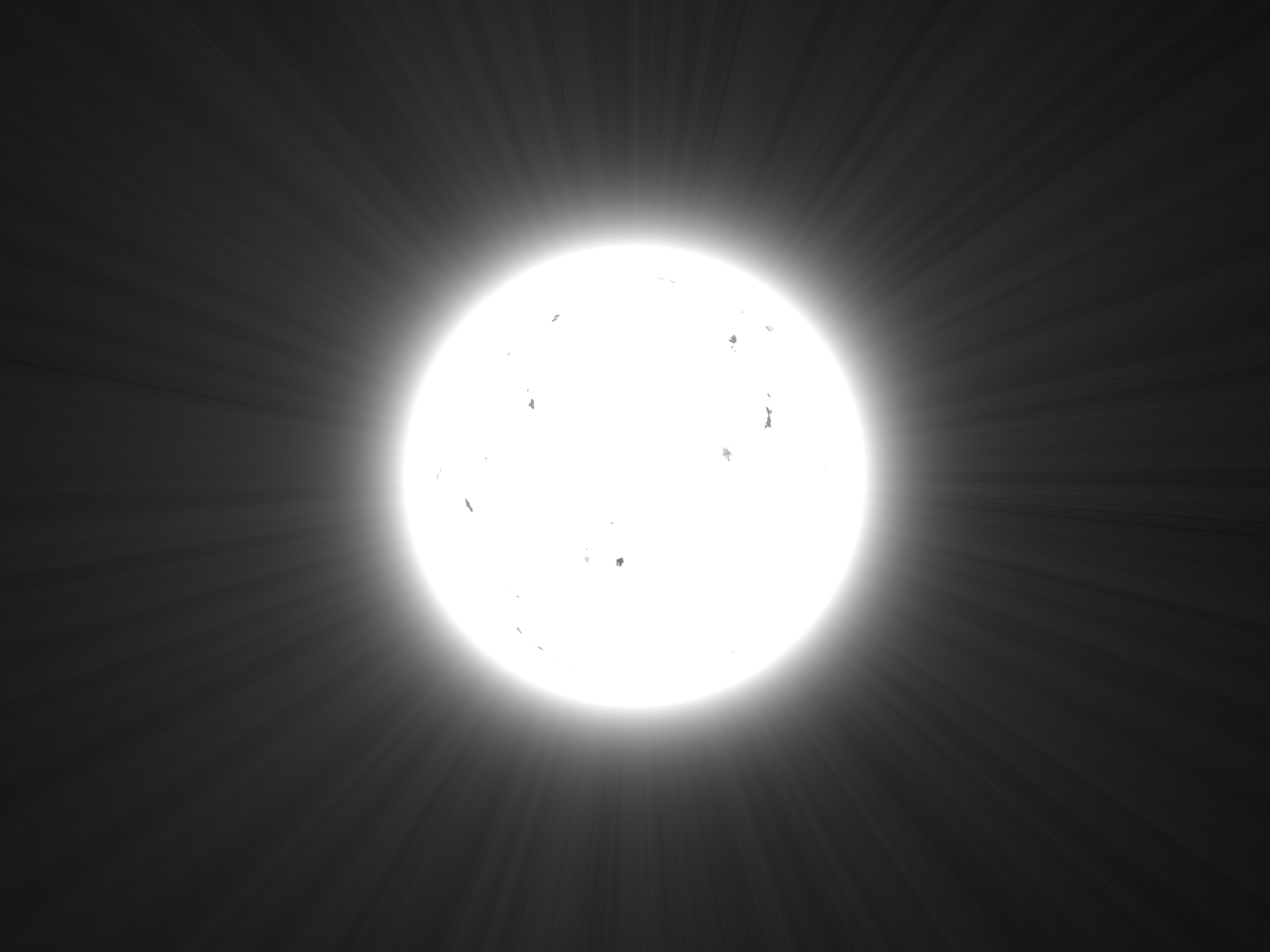 White main sequence star. Theas are Altair or Sirius like stars.